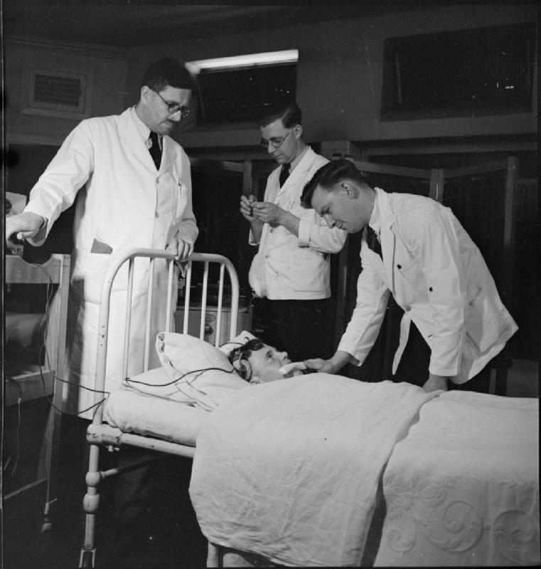 Male Nurses- Life at Runwell Hospital, Wickford, Essex, 1943 A male nurse at Runwell Hospital inserts a gag into a patient's mouth as the doctor (left) prepares to begin Convulsant Therapy treatment. A second male nurse prepares the electrodes.